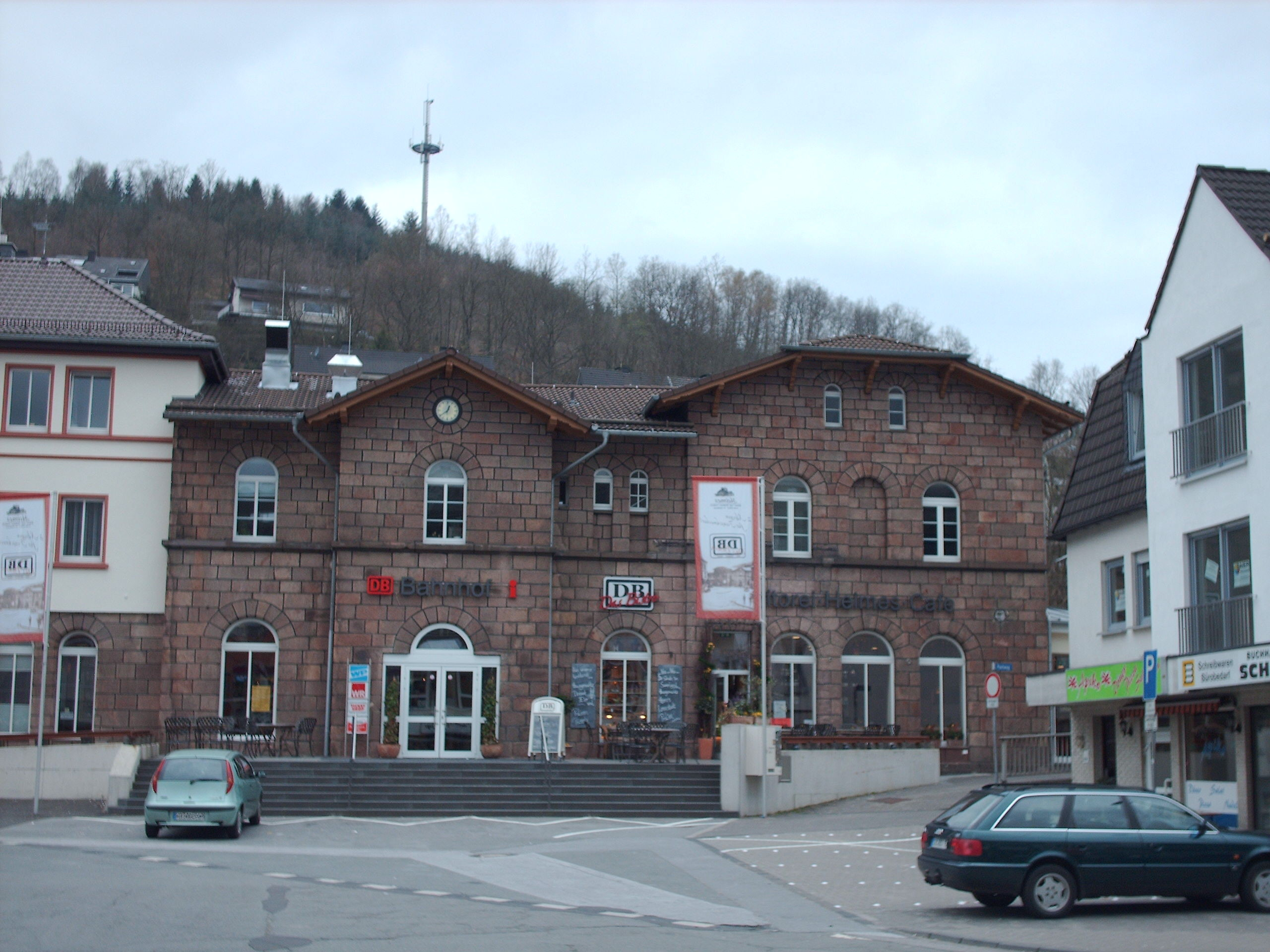 Altenhundem station, Lennestadt, Germany check usage